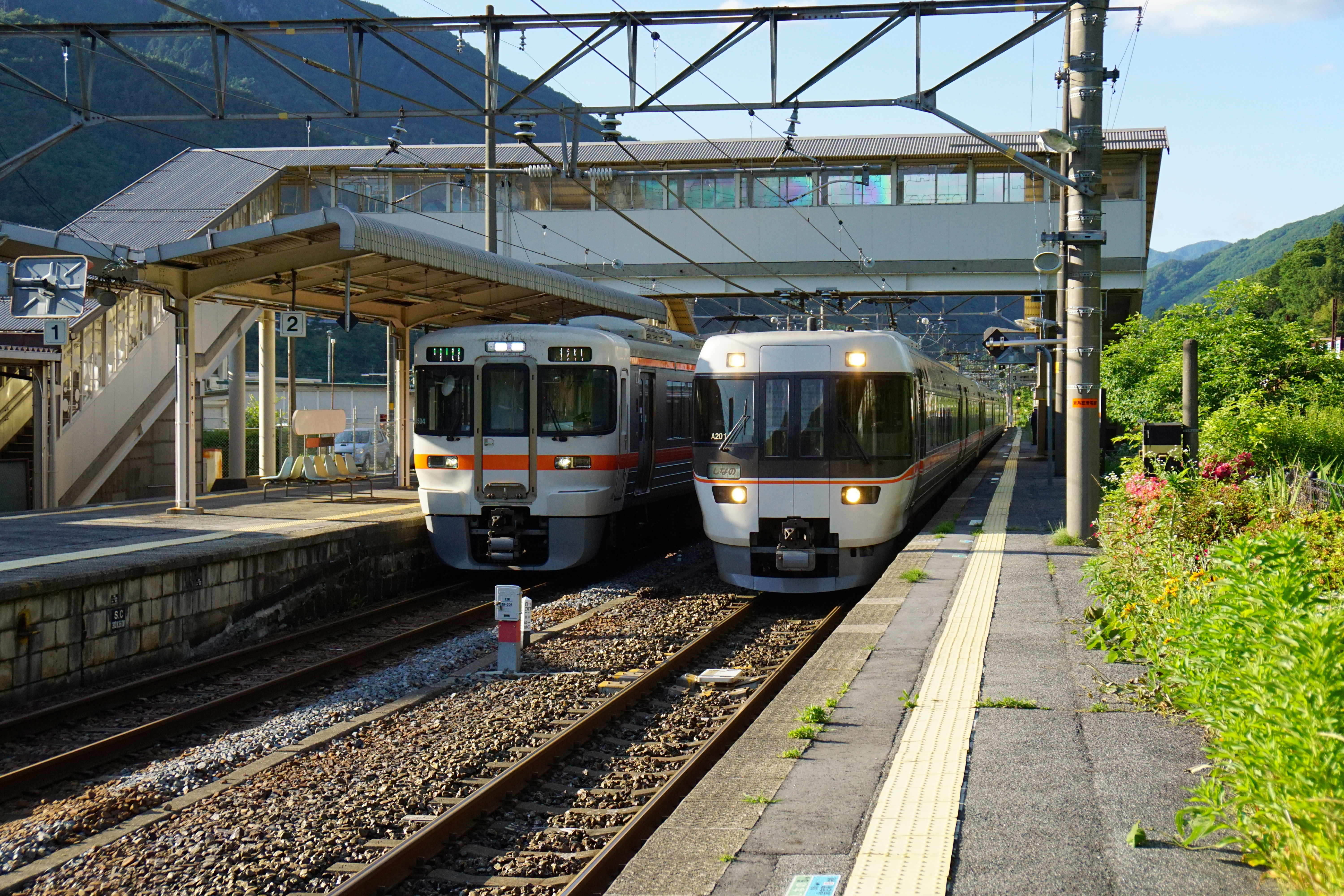 Nagiso Station in Nagiso, Nagano prefecture, Japan